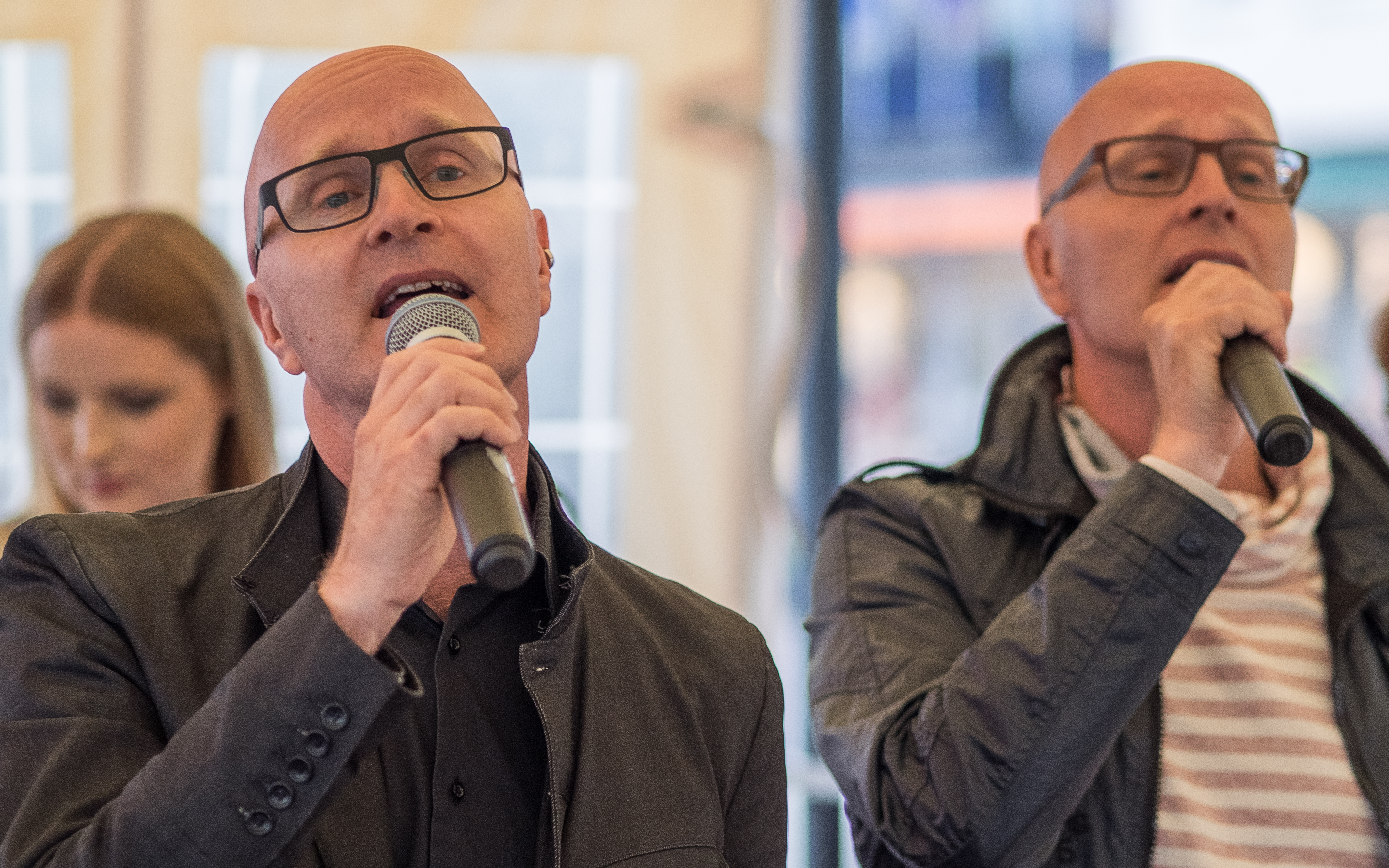 Henrik & Magnus Rongedal July 2014